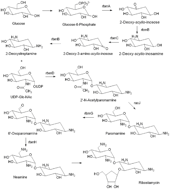 Structure of